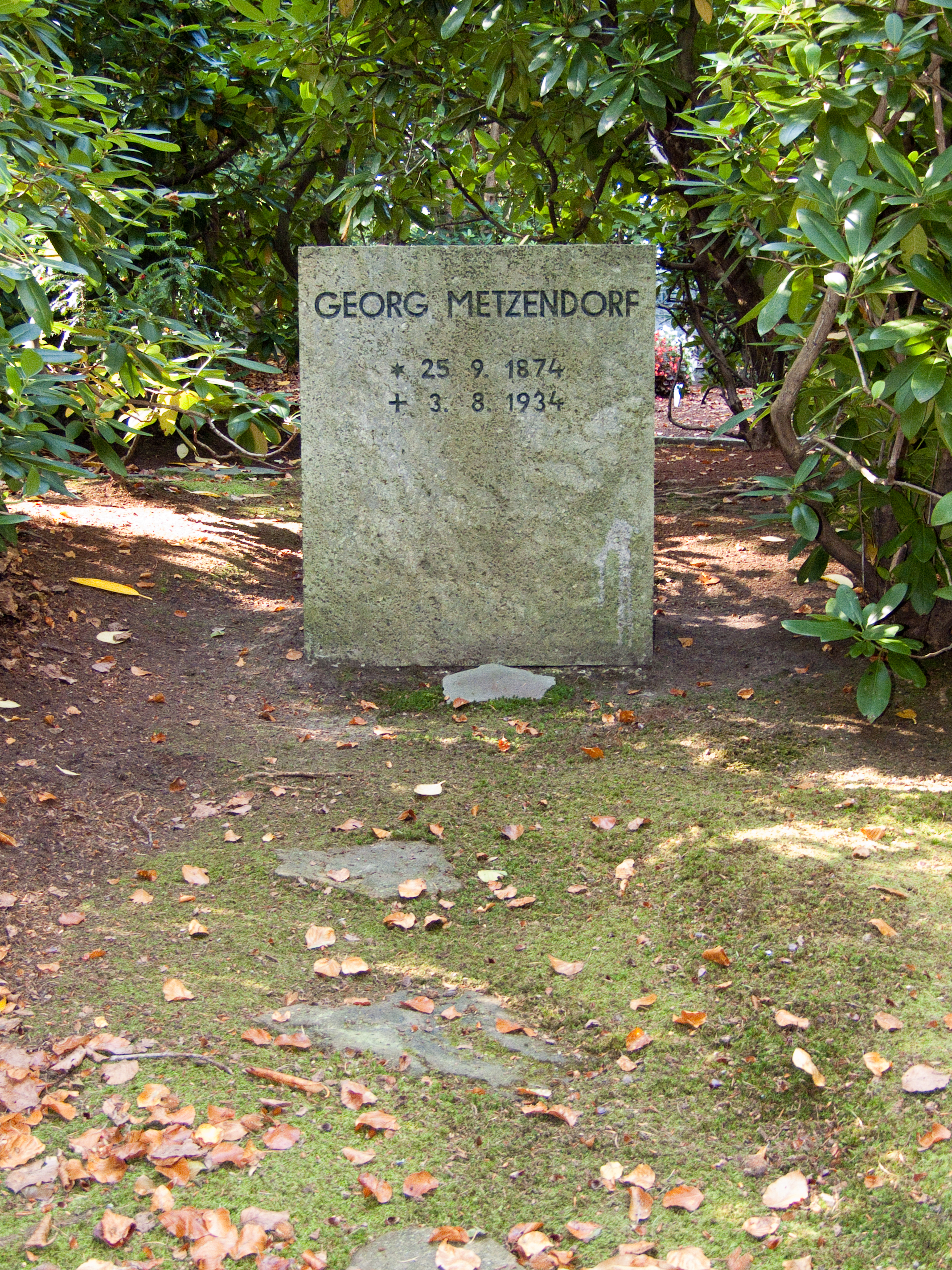 Tomb of Georg Metzendorf in Essen, Germany.